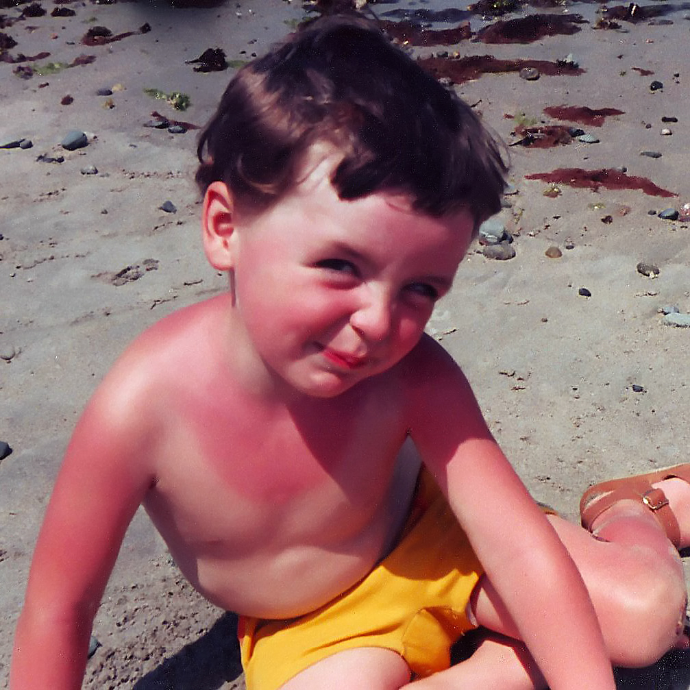 OMG SO CUTE. If this were a picture of me, I'd say you can tell I'm about to cry. I don't know what kind of Ted face it is.